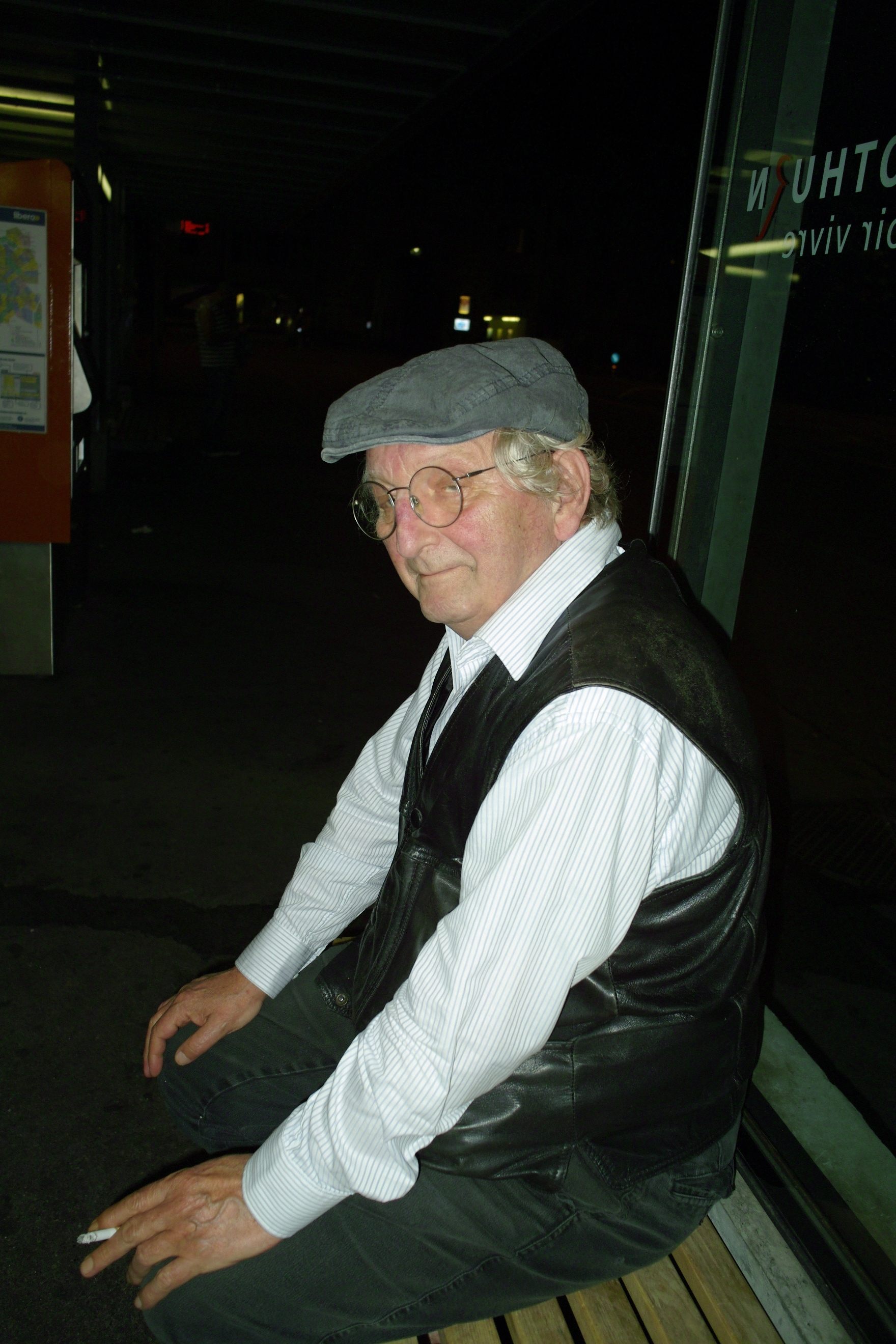 Swiss writer Peter Bichsel waiting for the bus in Solothurn, Switzerland. Photo by Gestumblindi, taken with Bichsel's kind permission.